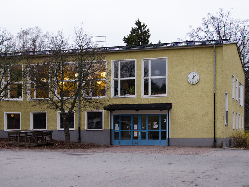 Helenelund School Montessori House, Sollentuna 2012-11-25